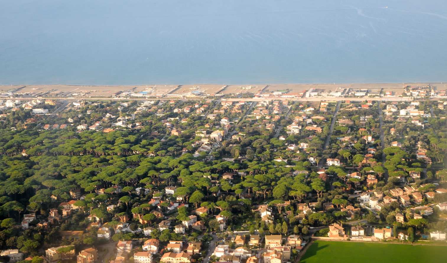 Aerial view of Fregenae, a suburb of Fiumicino, about 20 km west of the city of Rome. The Tyrrhenian Sea with the beaches is seen in the background.